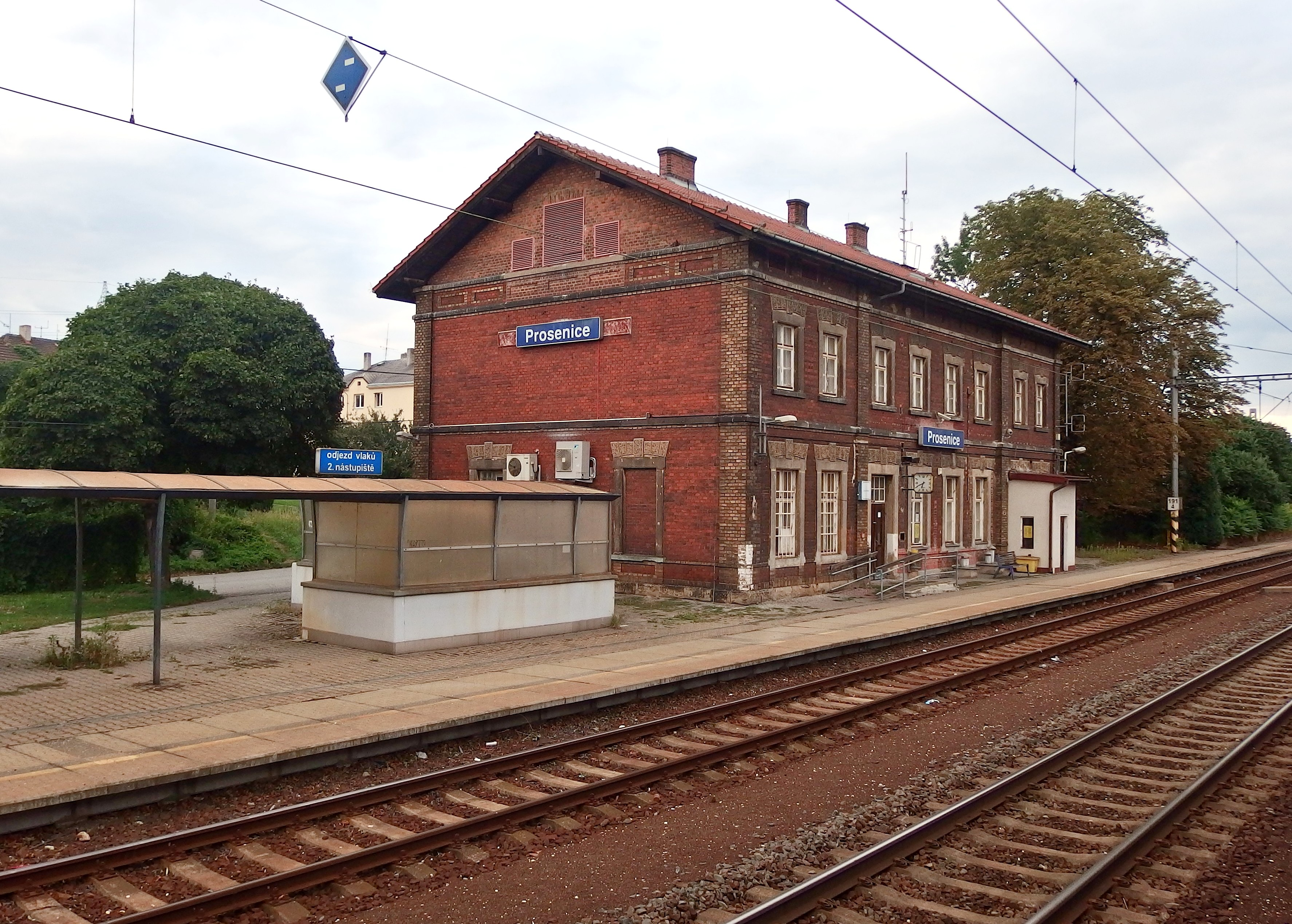 Prosenice, Czech Republic, Přerov District.